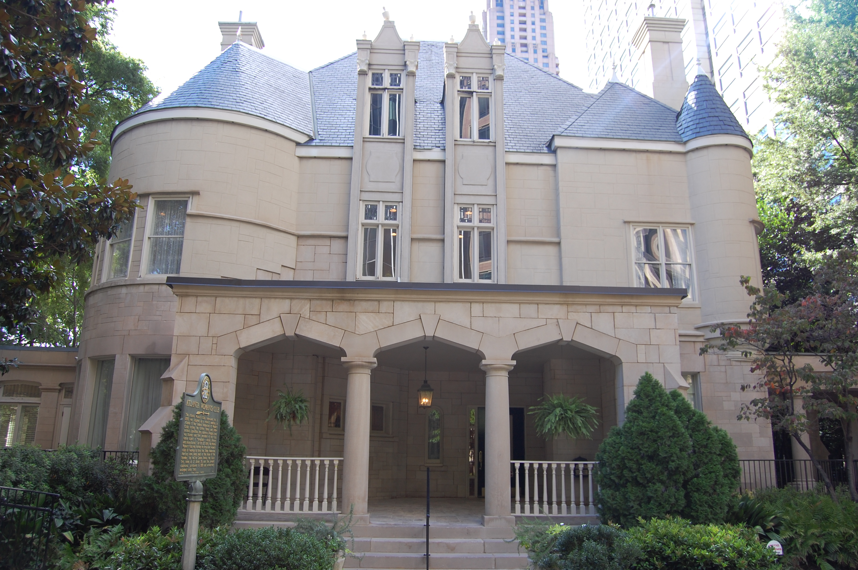 Atlanta Women's Club